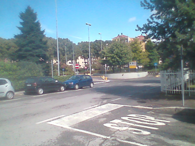 Via Garigliano - Monza